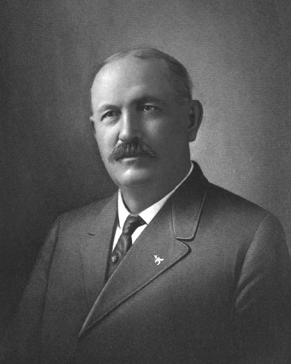 George Ulysses Young (February 10, 1867 – November 26, 1926), American businessman and Secretary of Arizona Territory from 1909 till 1912.